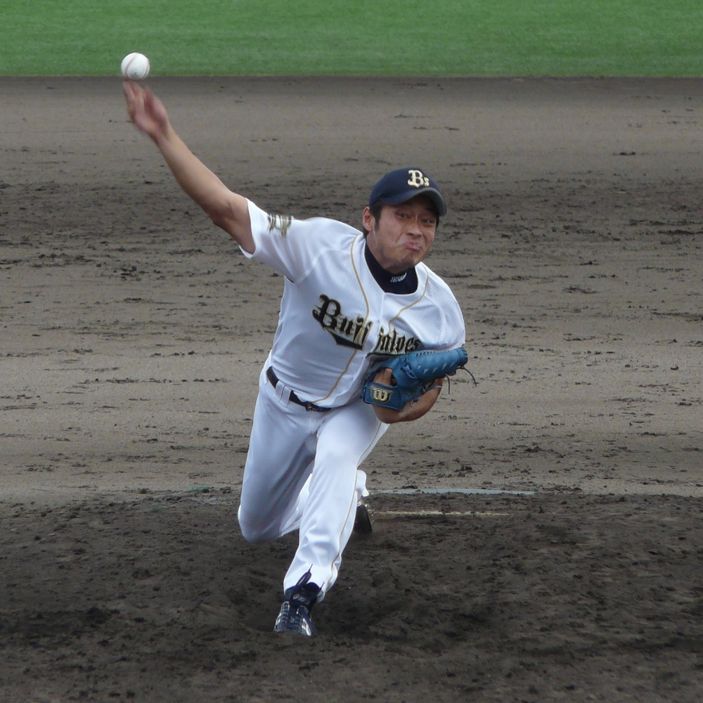 Tatsuya Satoh, pitcher of the Orix Buffaloes, at Kobe Sports Park Sub Baseball Ground.